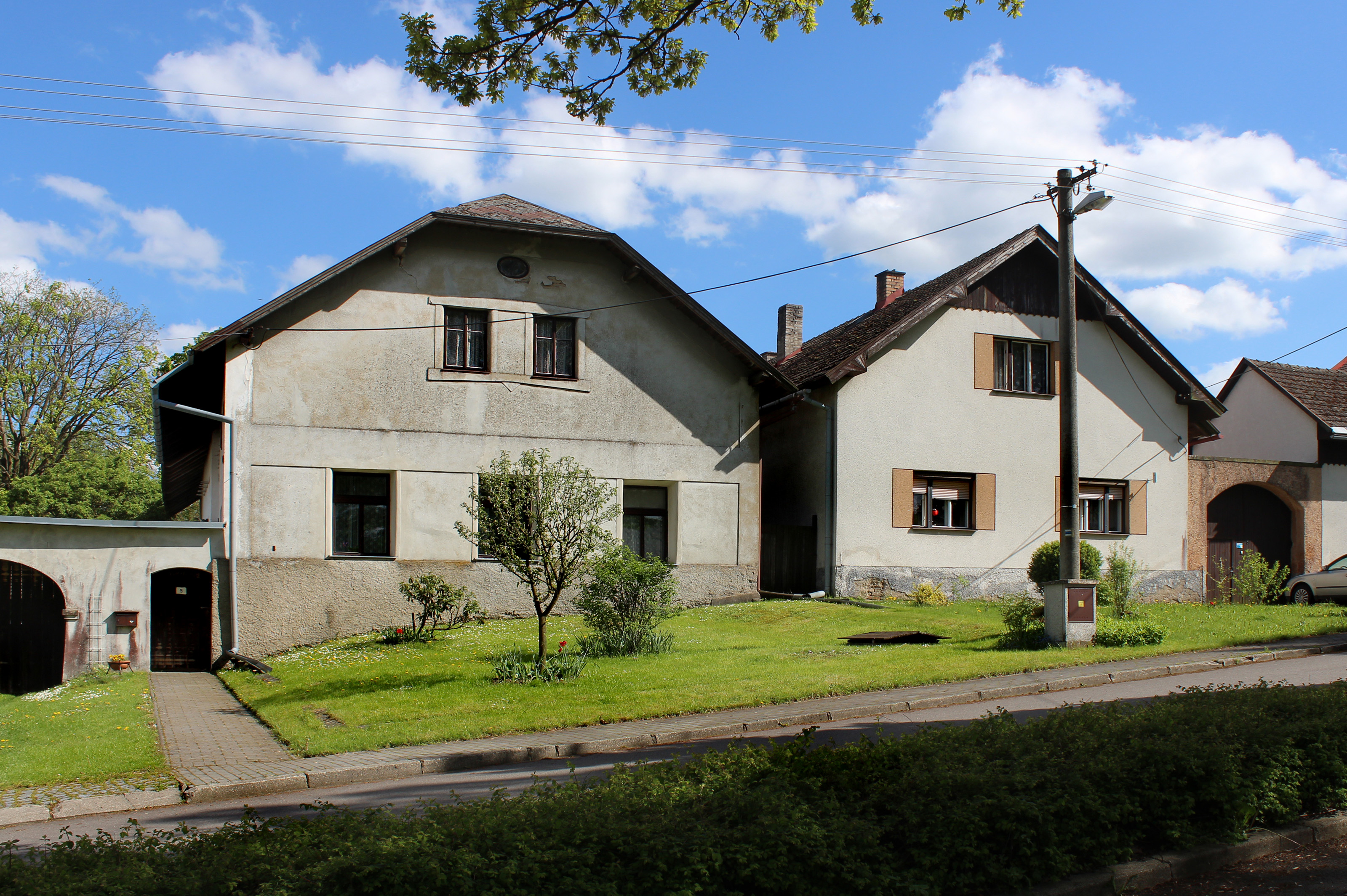 Common in Matějov, Czech Republic